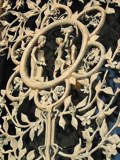 Washington National Cathedral ironwork uploaded by photographer